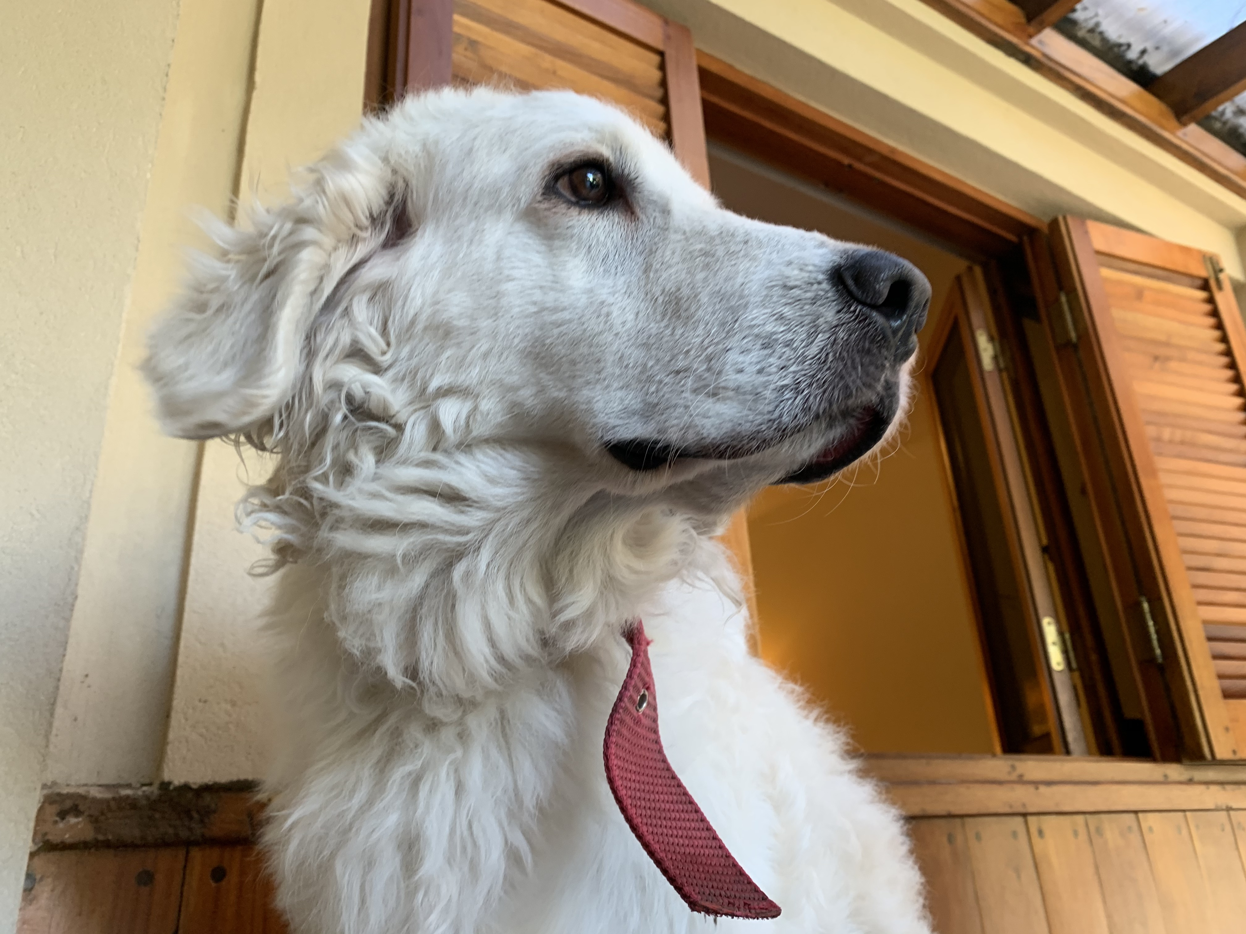 Female Kuvasz admiring the horizon